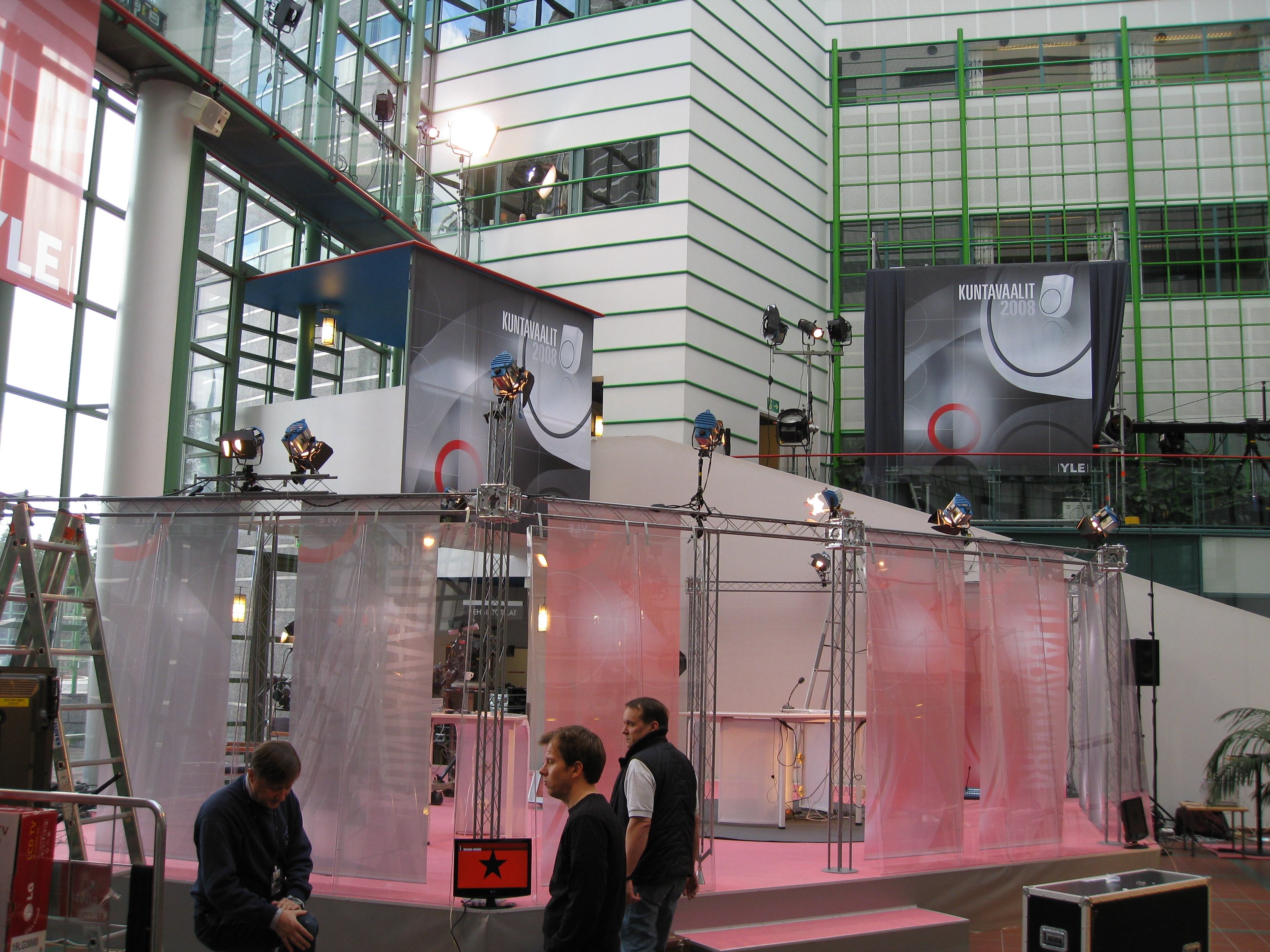 Arrangements in Iso Paja lobby are almost finished for the Election Result evening next day on Sunday 26 October